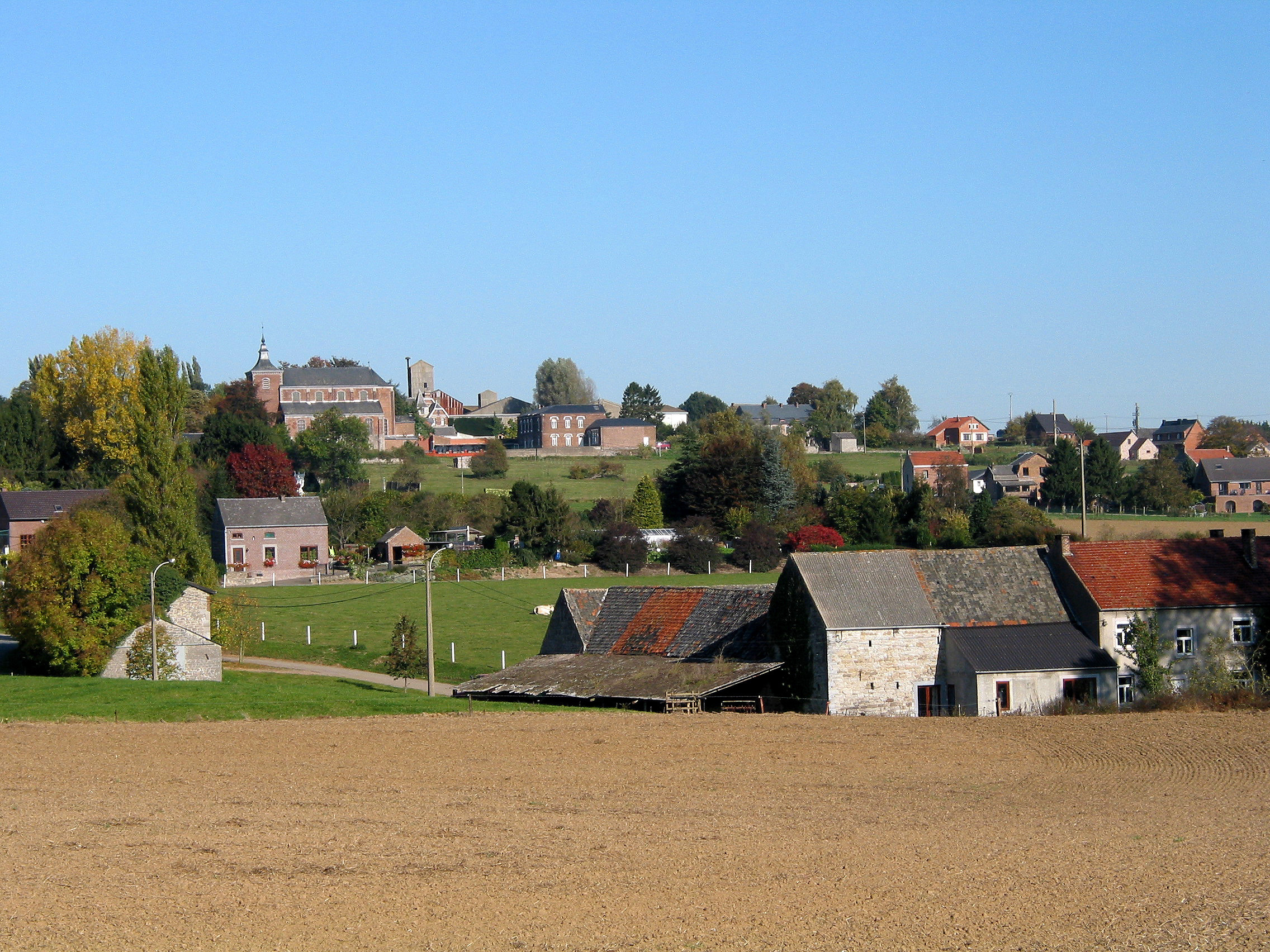 Héron (Belgium), the village int he autumn.